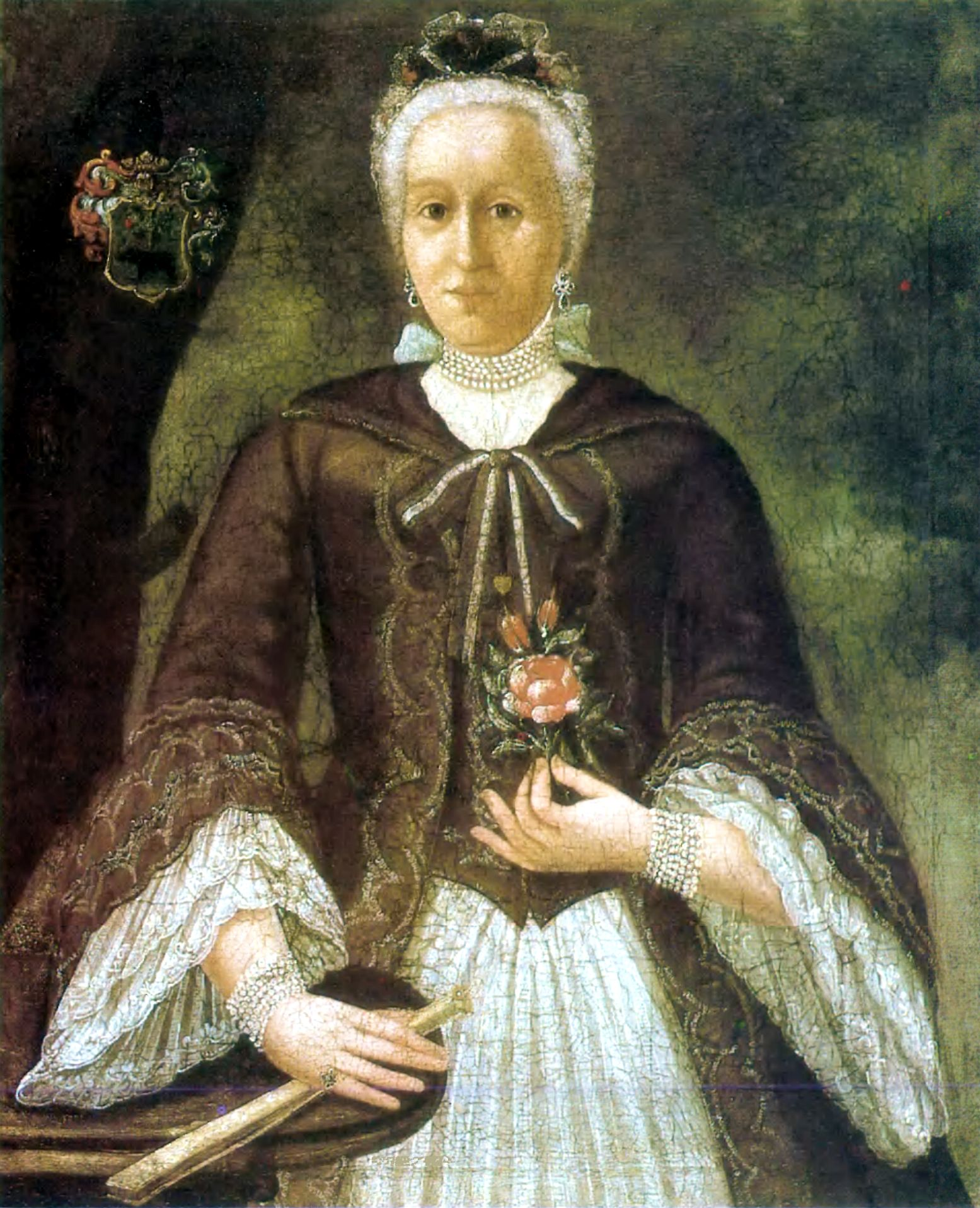 mother of Ferenc Kazinczy (18 May 1740 – 14 November 1812)